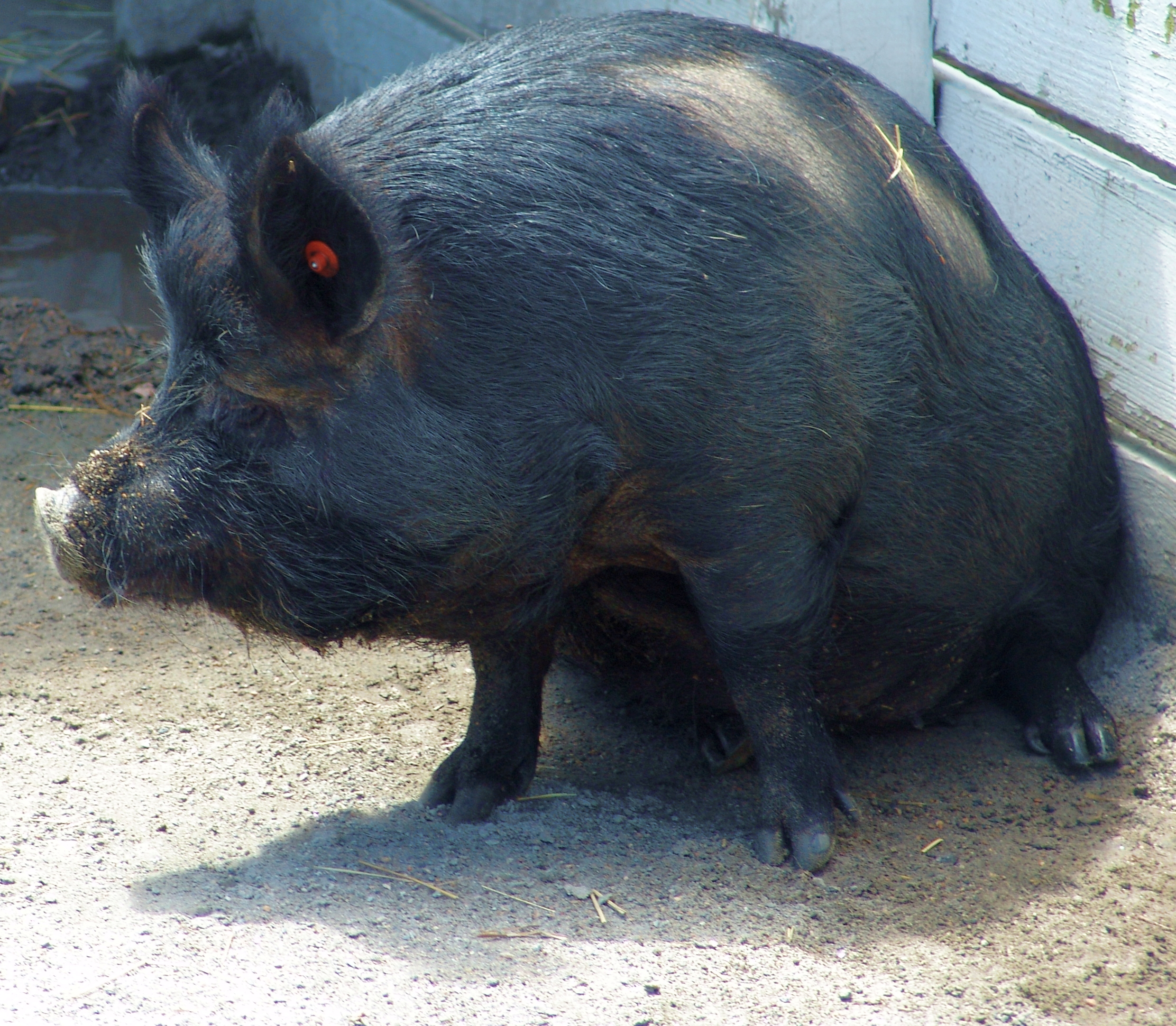 A Guinea Hog (a breed of pig) at the Norfolk Virginia zoo.